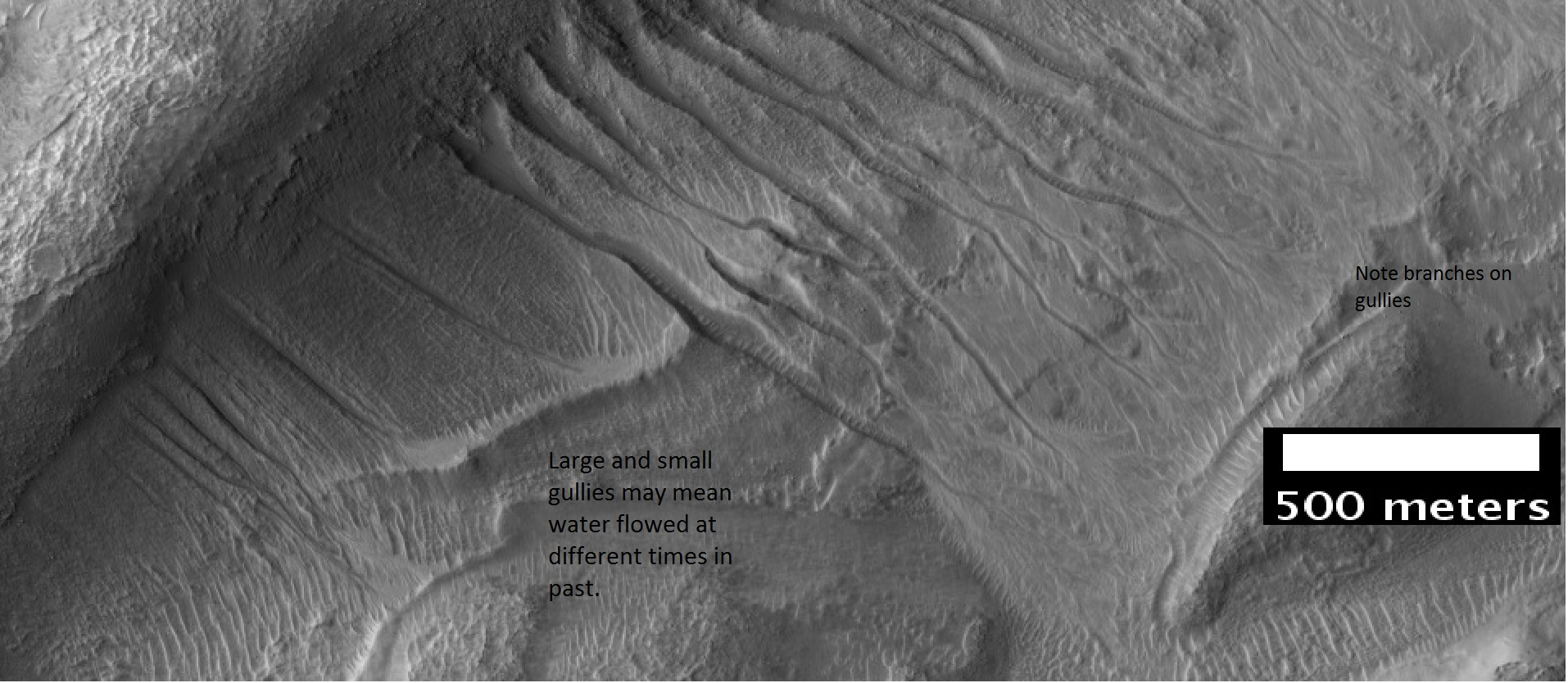 Hirise image, taken under HiWish program, of gullies in a crater in terra sirenum. Location is 44.1 S and 212.8 E.